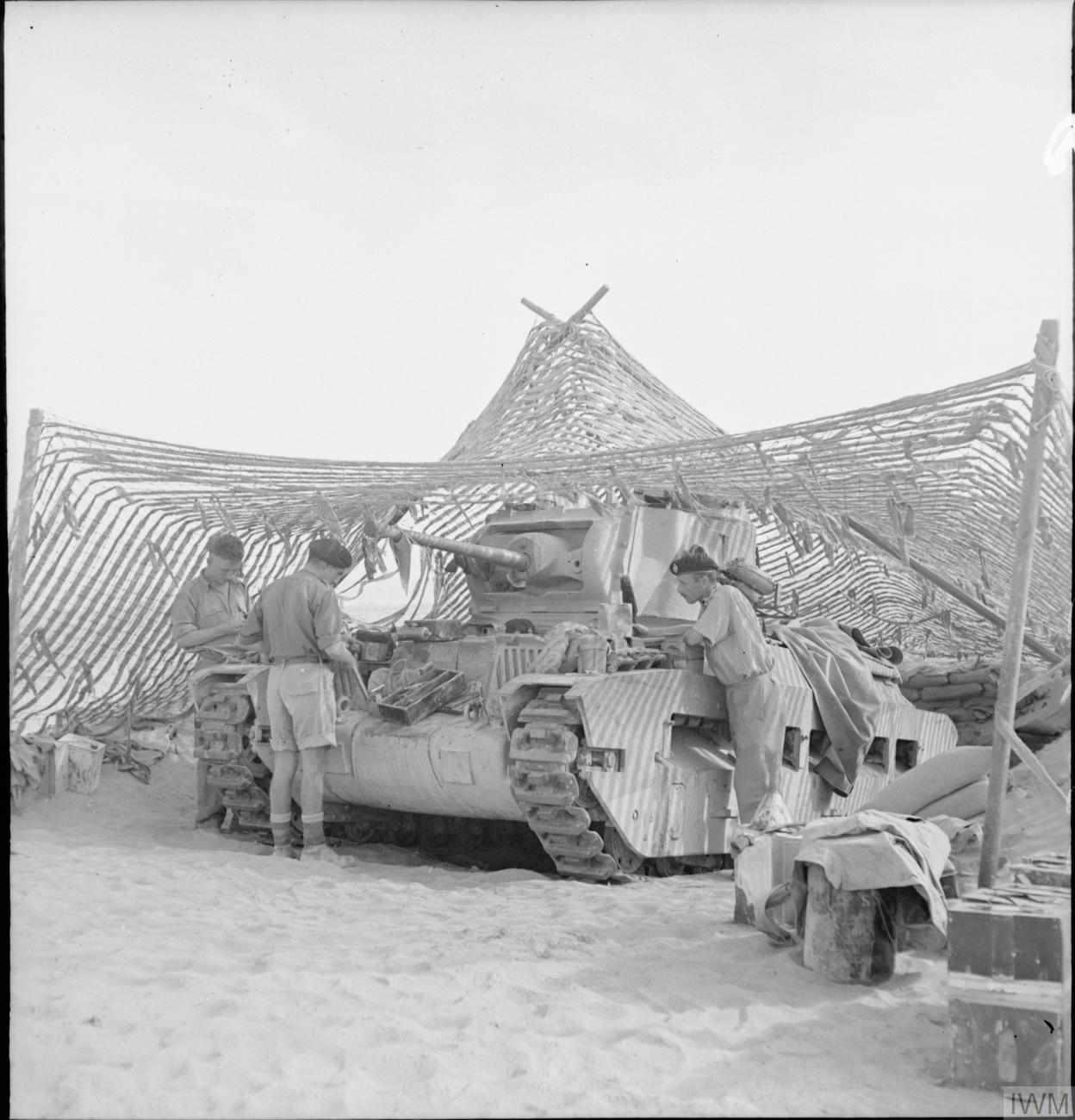 The British Army in North Africa 1941 A Matilda tank under camouflage netting in Tobruk, 18 November 1941.